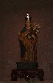 Virgen de la Cuevita